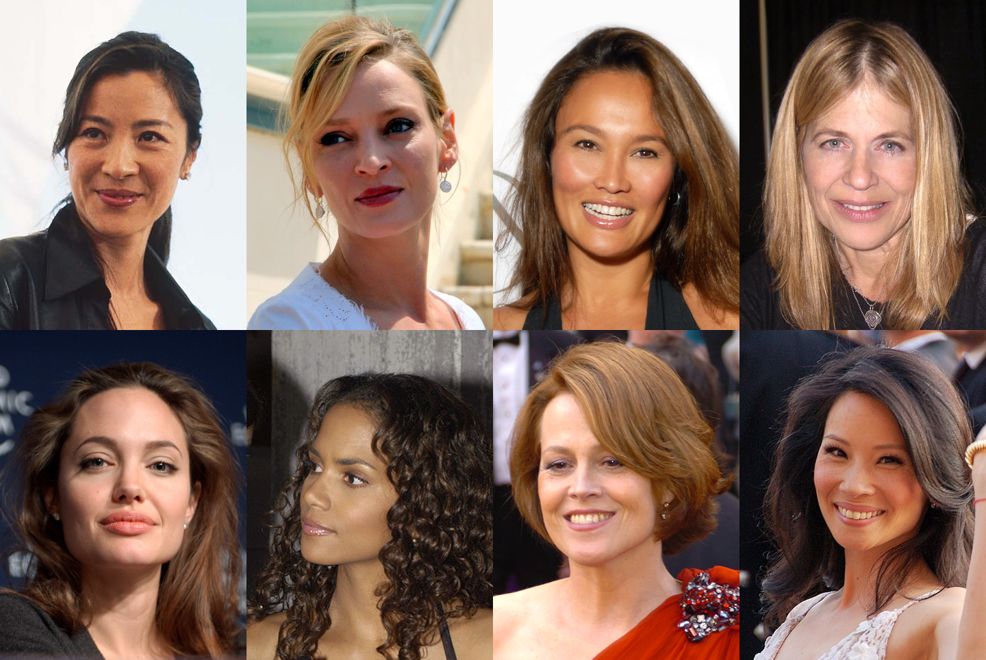 Eight actresses who have played action heroes. From top left: Michelle Yeoh, Uma Thurman, Tia Carrere, Linda Hamilton, Angelina Jolie, Halle Berry, Sigourney Weaver, and Lucy Liu.